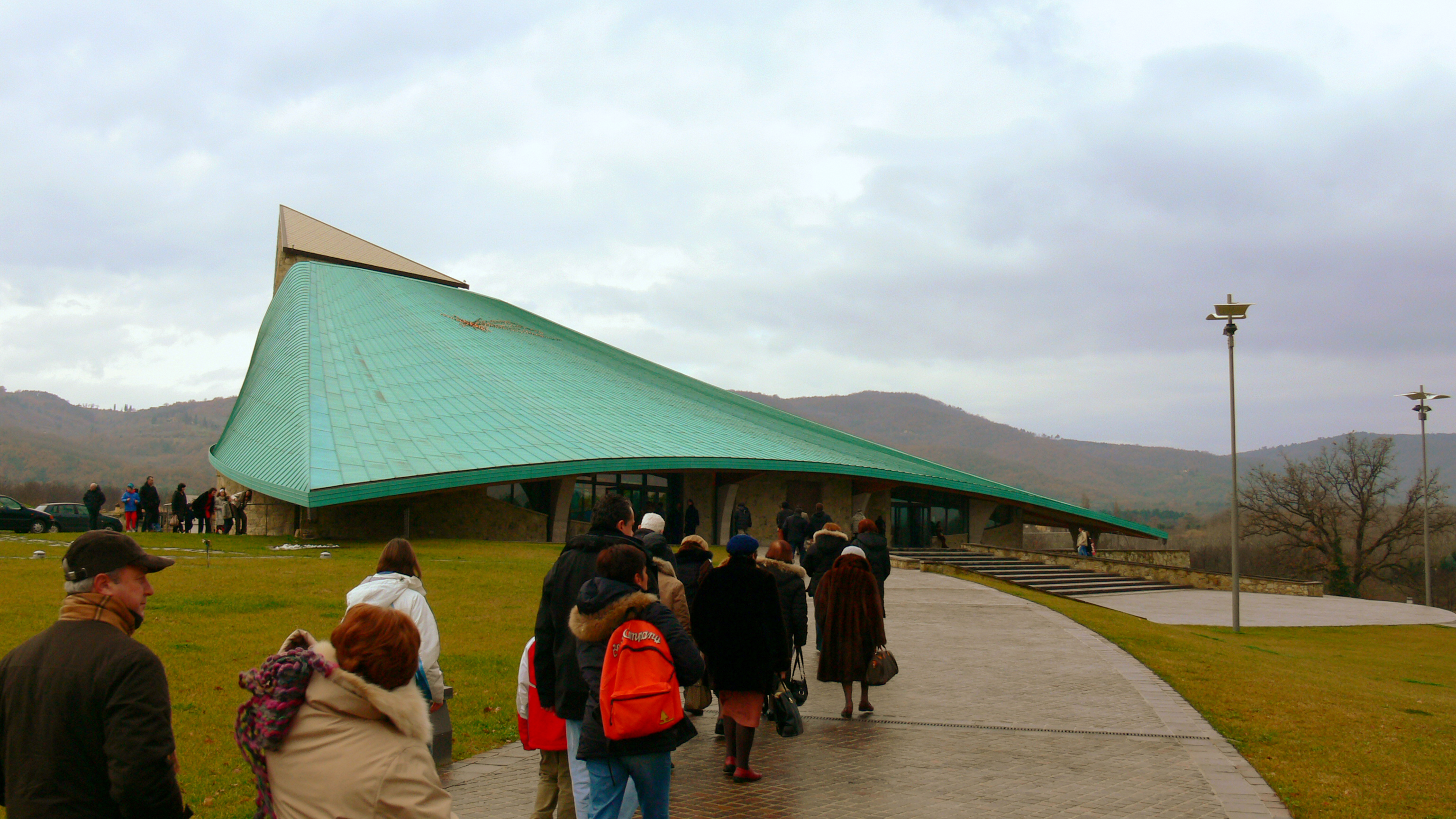 Arriving at the Loppiano Sanctuary